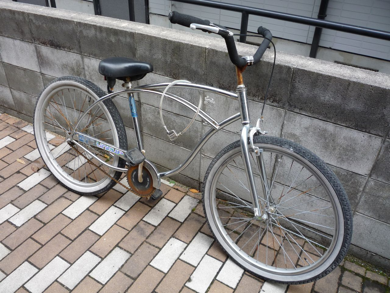 Beach cruiser in Japan (DEKI beach mariposa 26 Chrome plating)check out the chain!